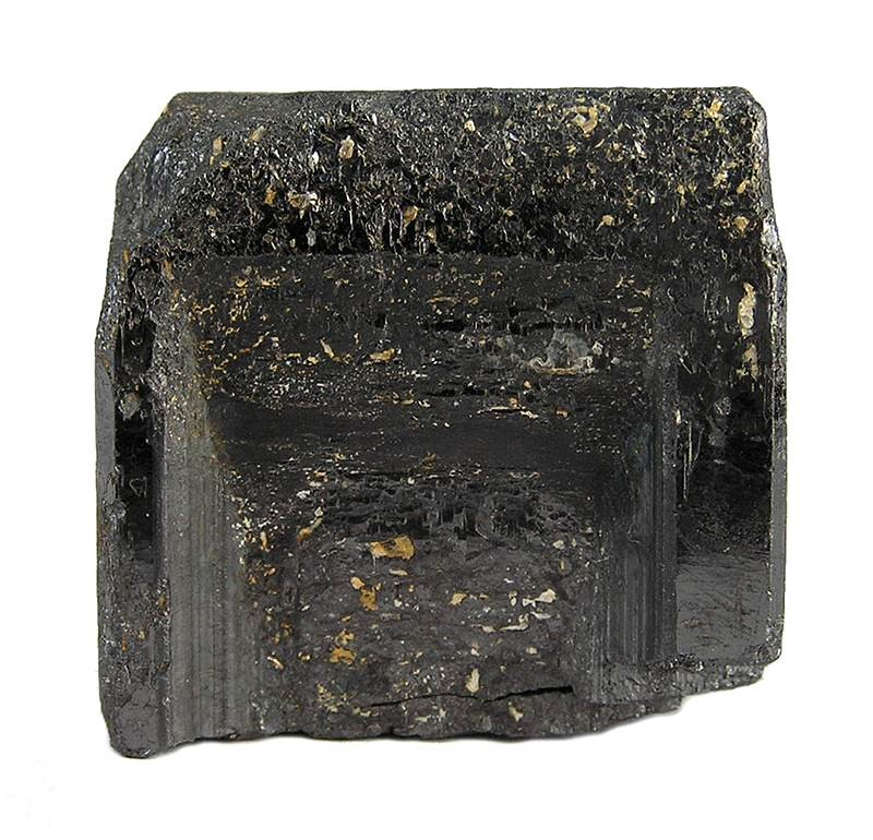 Columbite Locality: Galiléia, Doce valley, Minas Gerais, Southeast Region, Brazil (Locality at ) WOW! This is an unusual pseudocubic crystal of columbite with edges to 3.3 cm long. The crystal is deep black in color, with a nice luster but with slight pitting on the faces. One side of the crystal is contacted. Very large example of the classic Brazilian coloumbites. A couple of collection labels come with piece. 3.4 x 3.3 x 3.1 cm